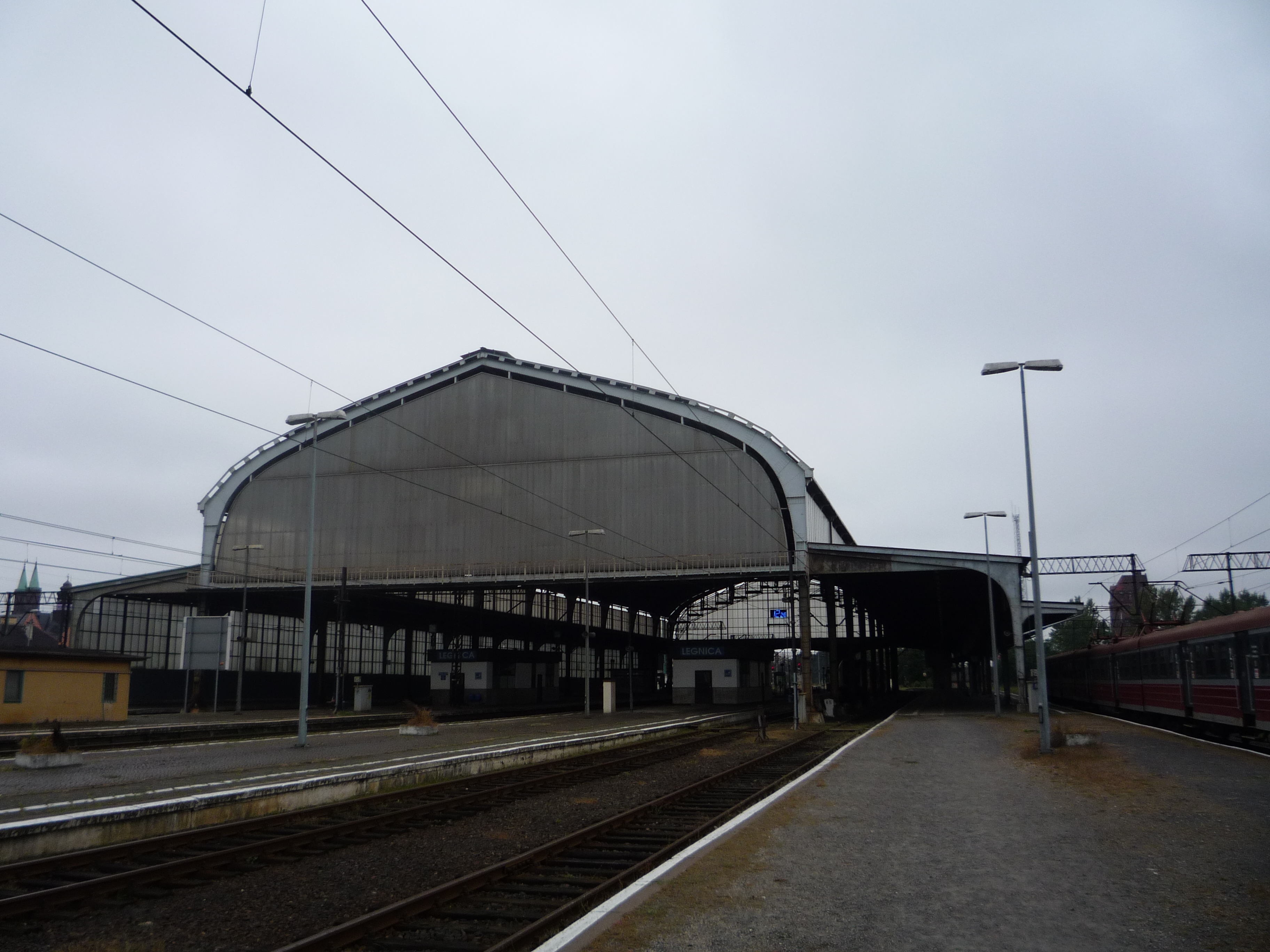 Main railroad station in Legnicy